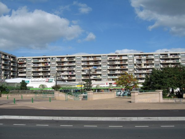 The Square Jean XXIII, in the La Roseraie district in Angers, Maine-et-Loire, Pays de la Loire, France.